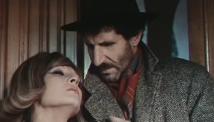 still frame from the Italian movie Franco, Ciccio e le vedove allegre (1968)